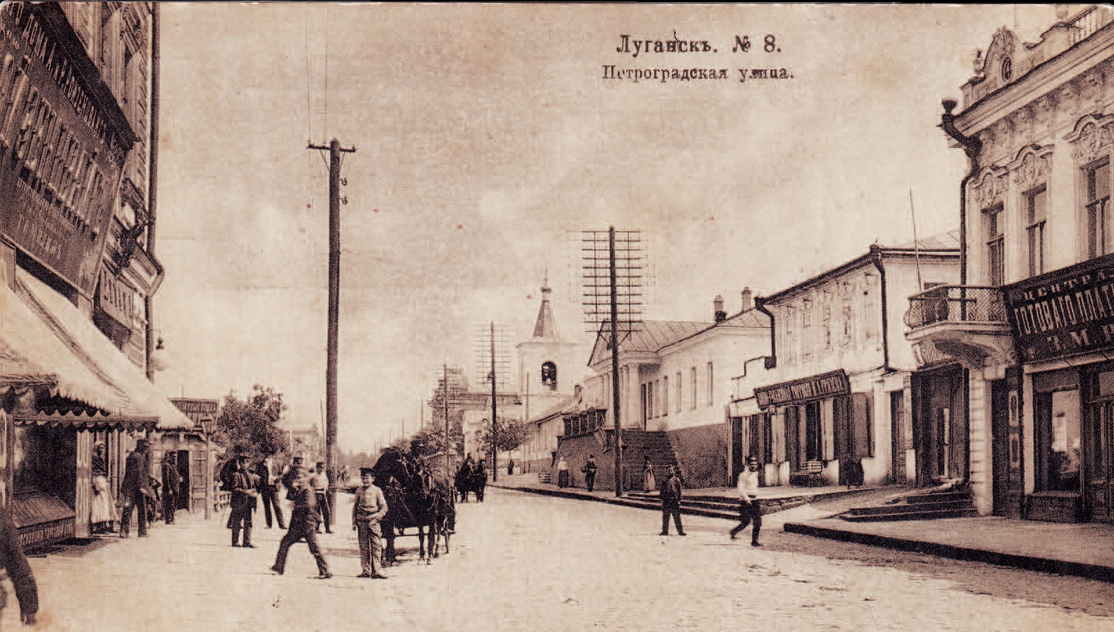 Petrograsdkaya Street. Lugansk. 1914.